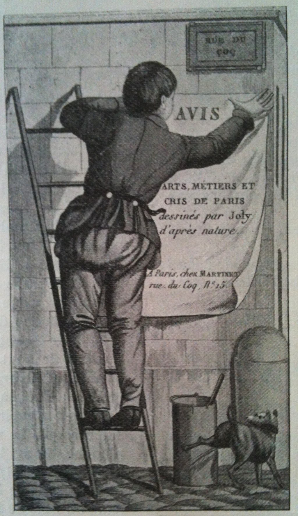 Billsticker